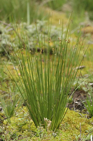 Picture taken in Commanster, Belgian High Ardennes . Species: Juncus effusus